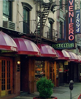 Veniero's sign and storefront. Looking west down 11th st from 1st Avenue New York, NY 10003